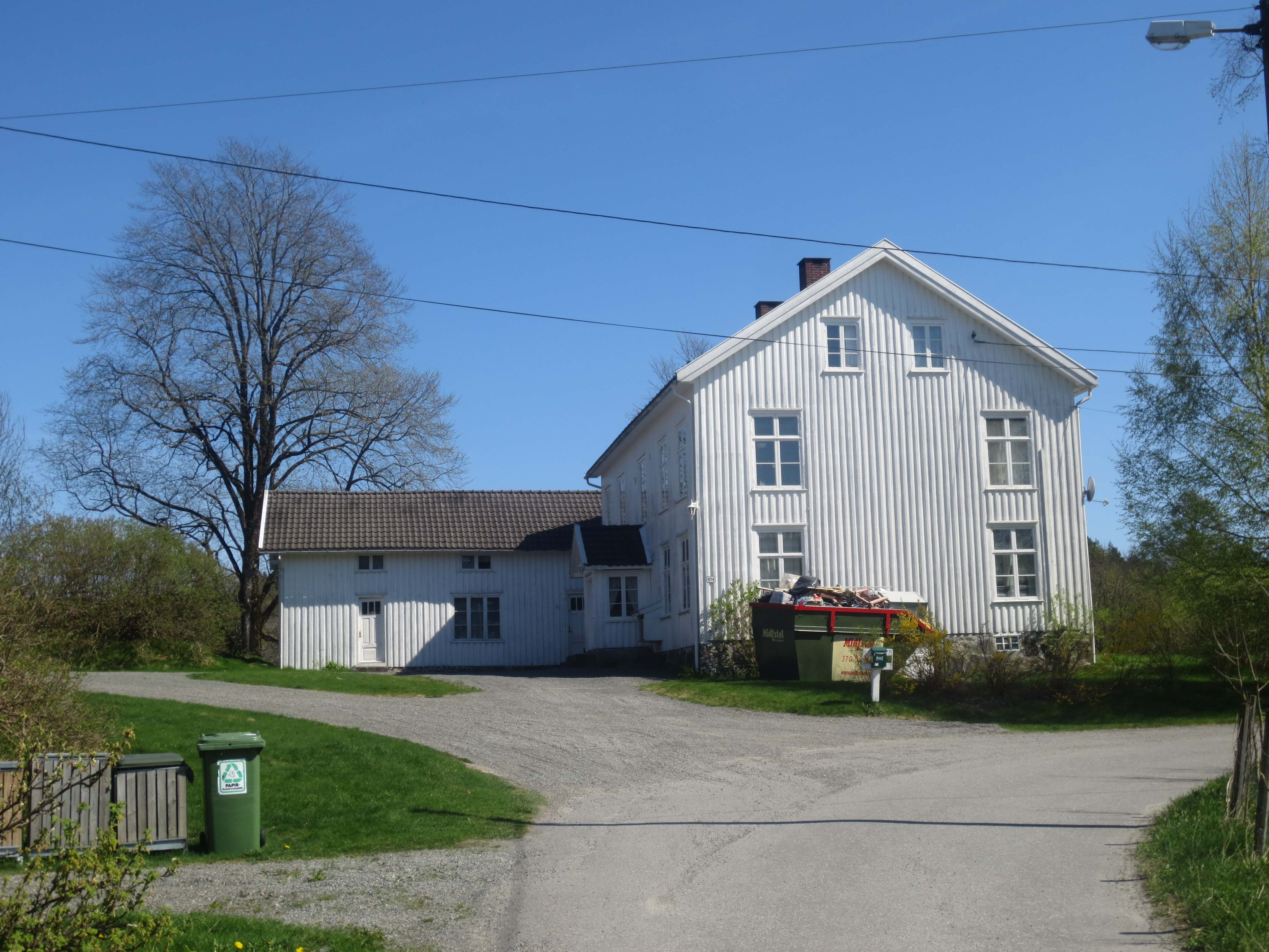 The parish manor under the Church Austre Moland, in the municipality of Arendal, Norway